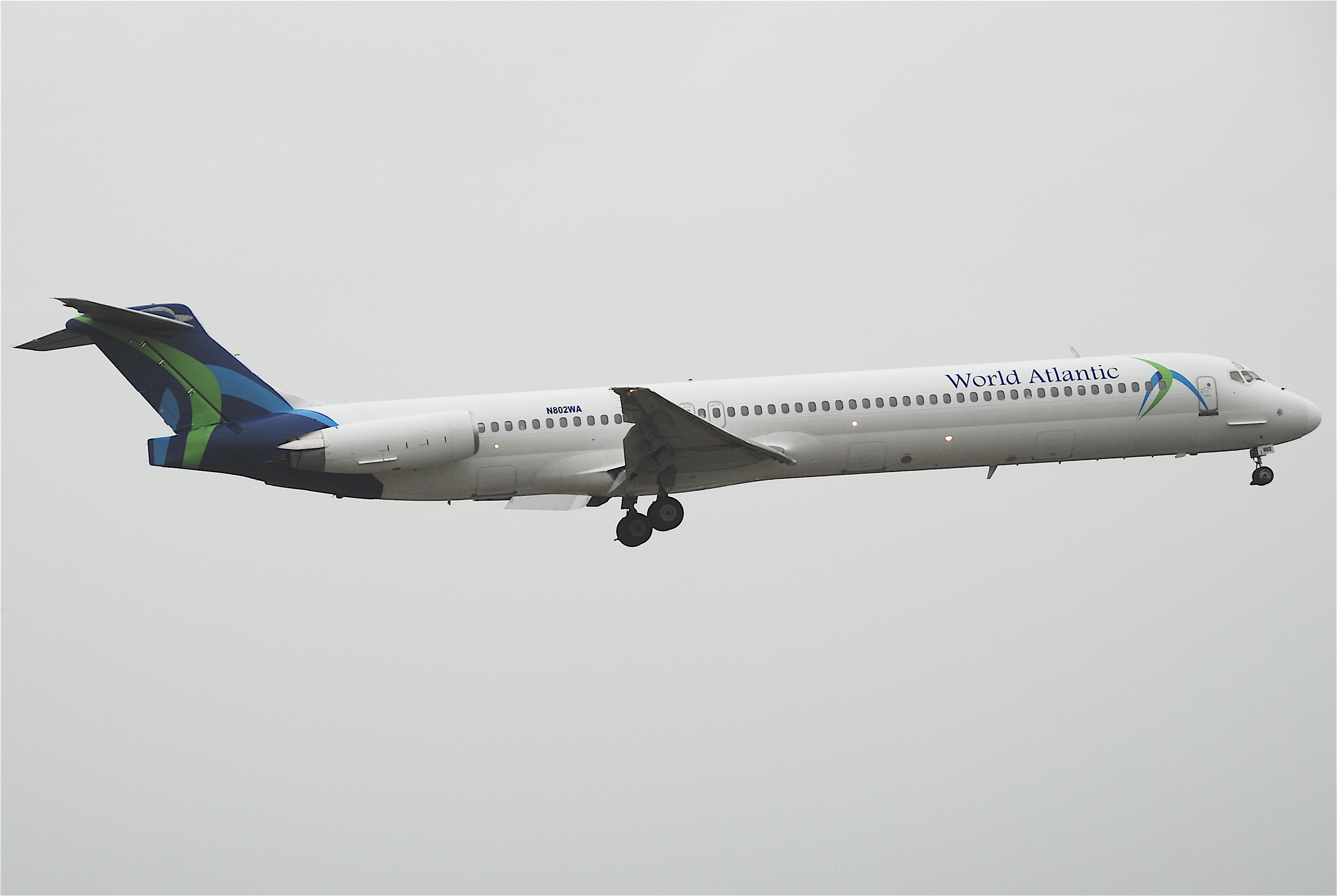 World Atlantic Airlines MD-82; N802WA@MIA;17.10.2011/626fz